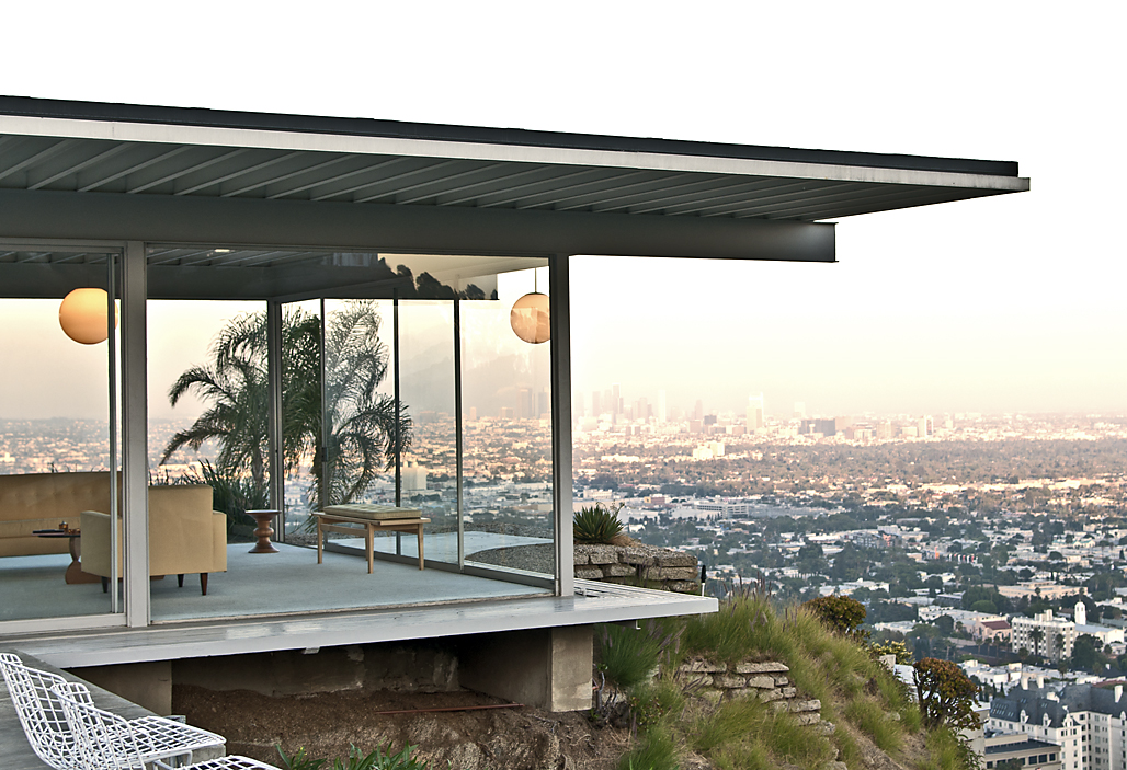 The Case Study House No. 22 — Stahl House — Hollywood Hills, Los Angeles, California.